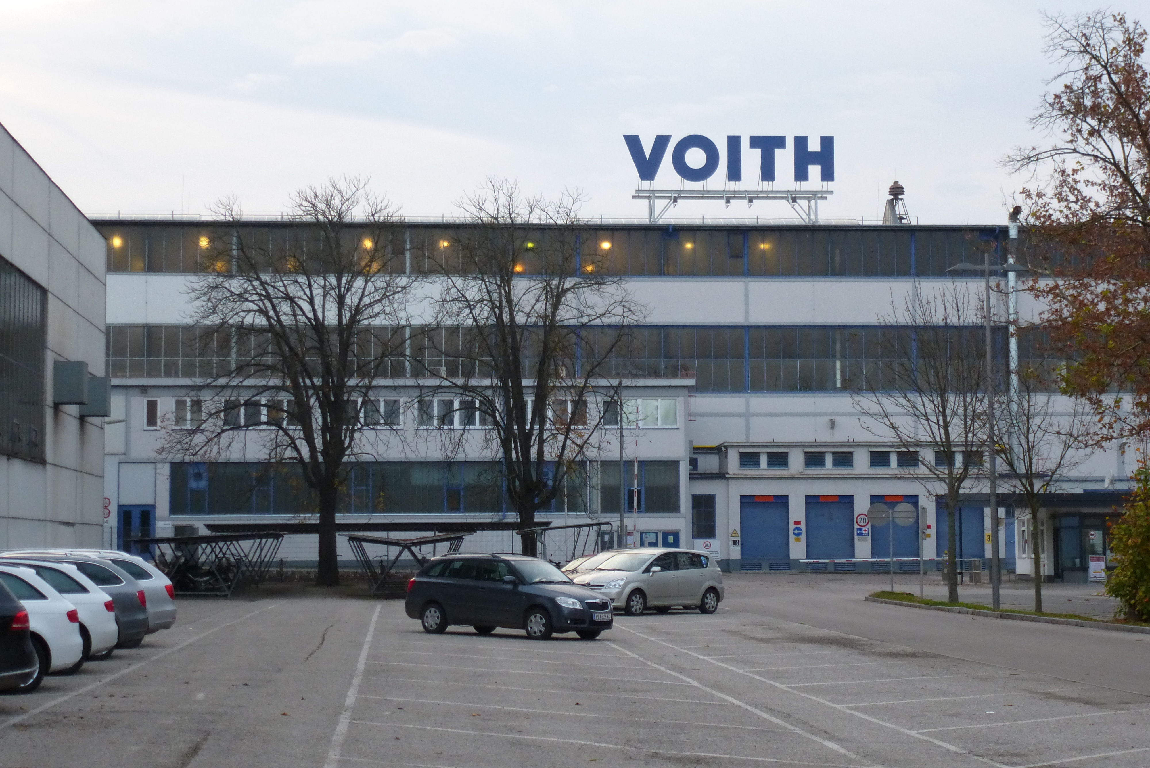 Voith St. Pölten